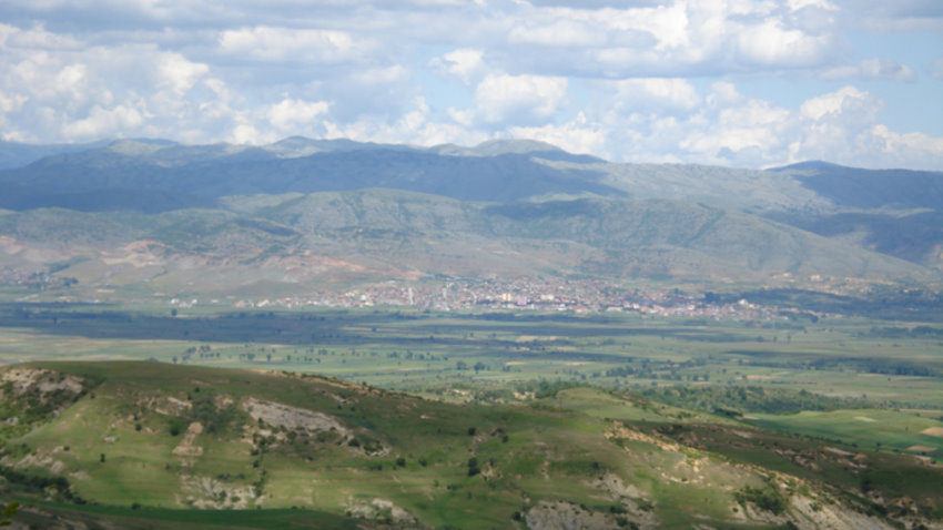 Bilisht town seen from Morava mountain